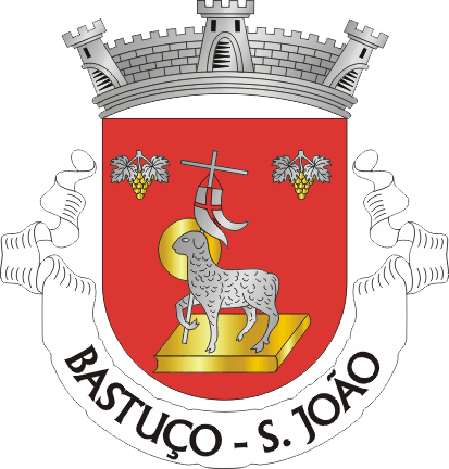 Crest of Bastuço (São João), a parish in the municipality of Barcelos (Portugal)